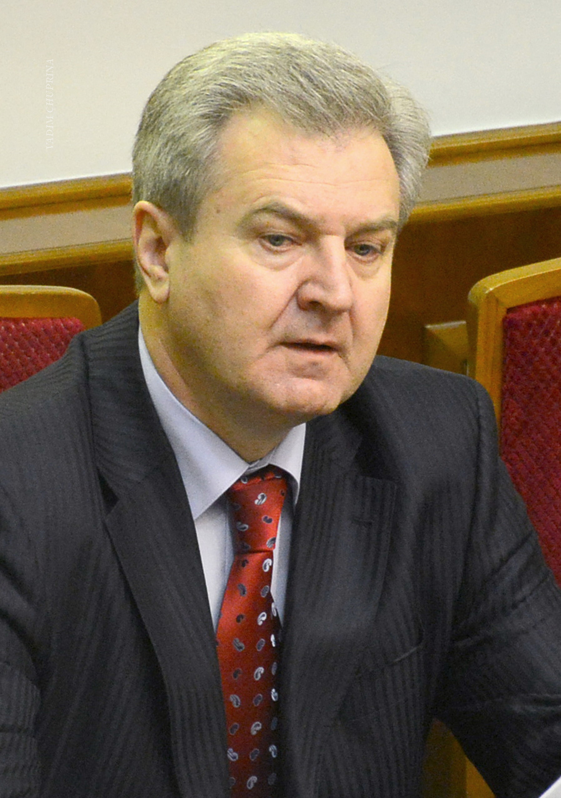 Ukrainian politicians VADIM CHUPRINA